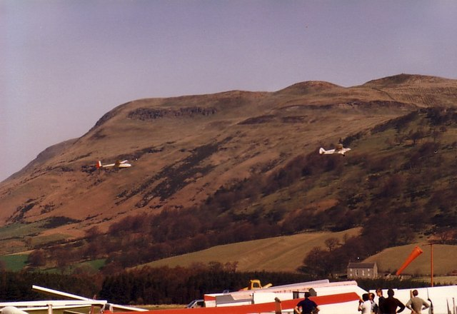 Aerotowing at Portmoak. Looking north across the airfield towards Bishop Hill. The glider is a K13 two-seater, being towed by a Piper Super Cub.